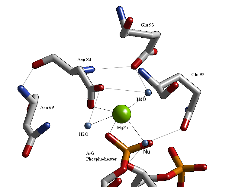 BglII active site containing residues that coordinate to a metal ion and water molecules including the nucleophilic water that breaks the scissile phosphodiester bond at the recognition site.